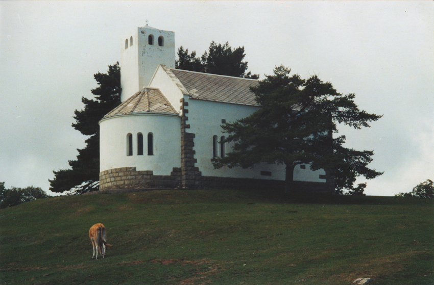 Monte Bignone, Sanremo, Italy - Small Church